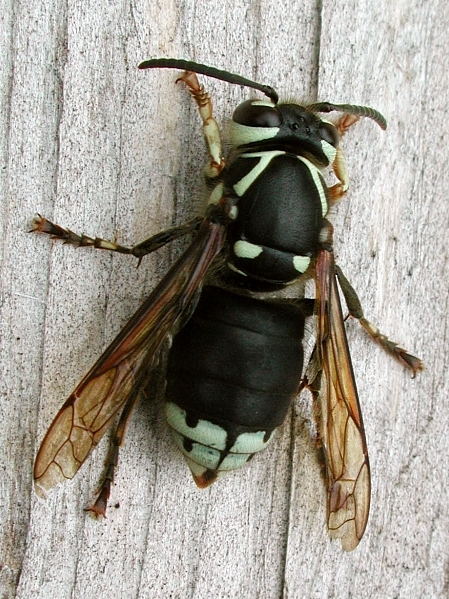 Dolichovespula maculata, Bald-Faced Hornet, Baltimore, Maryland, USA